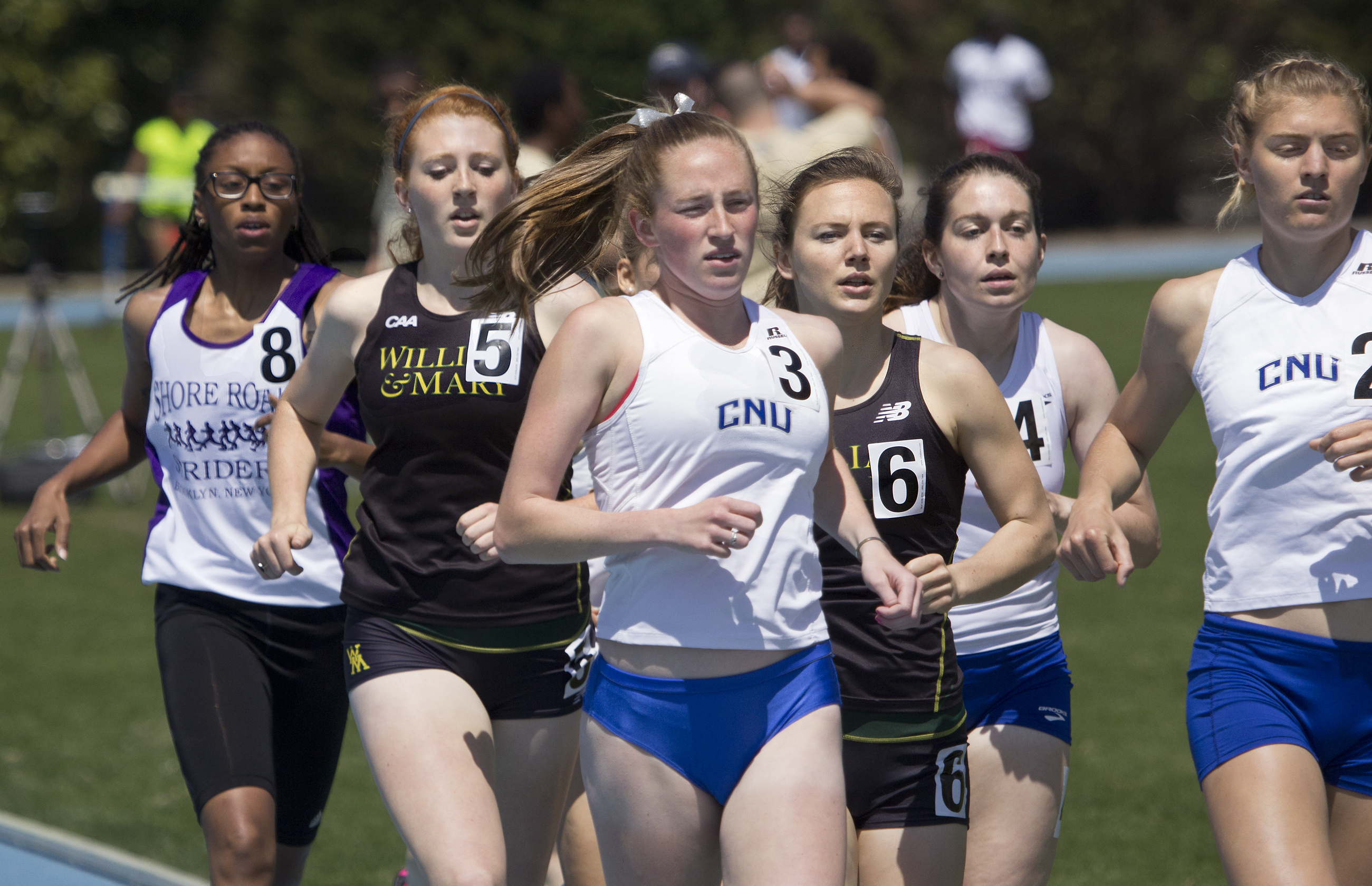 CNU Captains Classic Track and Field meet women William and Mary Salisbury Christopher Newport University